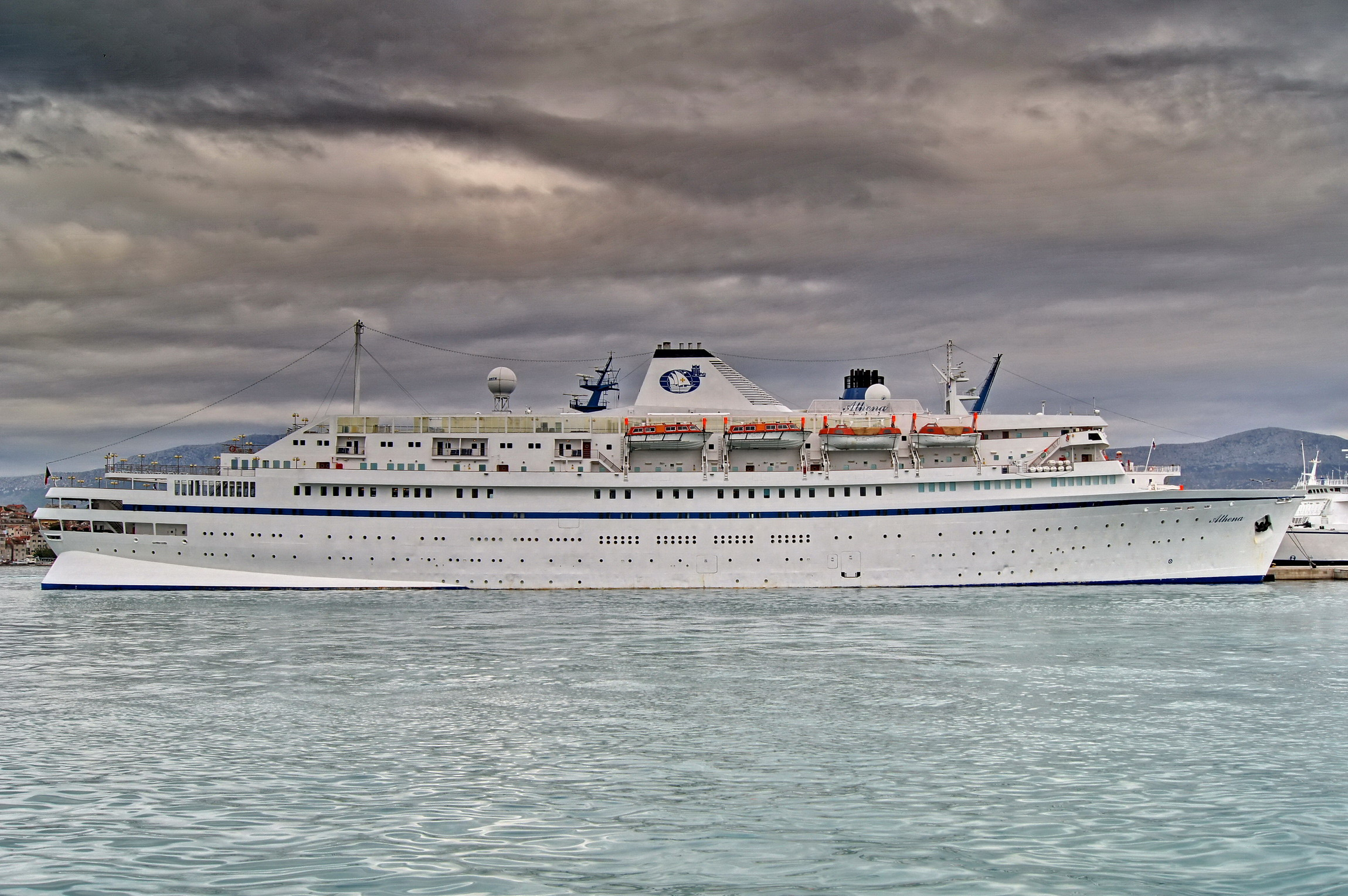 Athena (ship, 1948) IMO 5383304; in Split, 2011-10-22